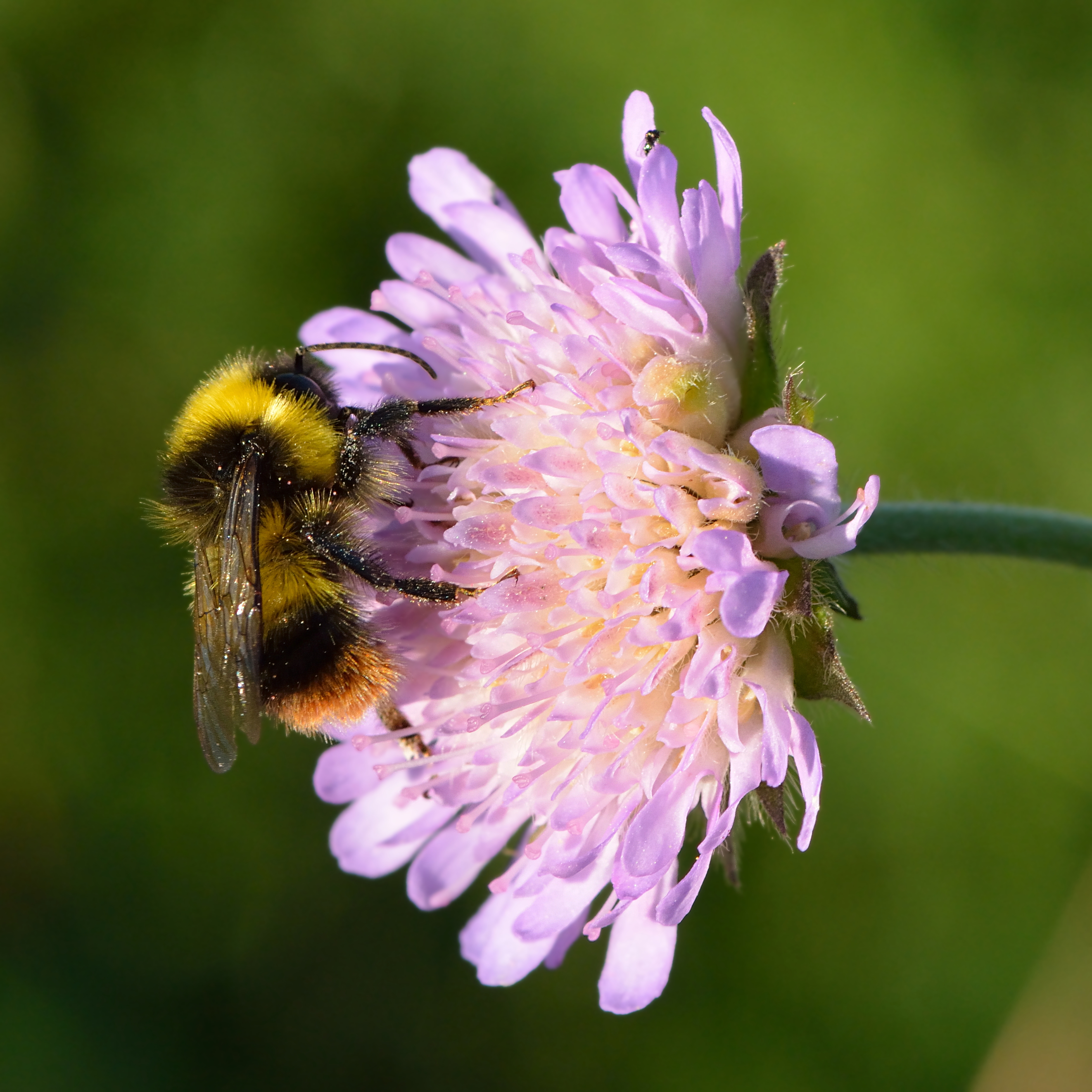 The male early bumblebee (Bombus pratorum) on the field scabious (Knautia arvensis). Keila, Northwestern Estonia.